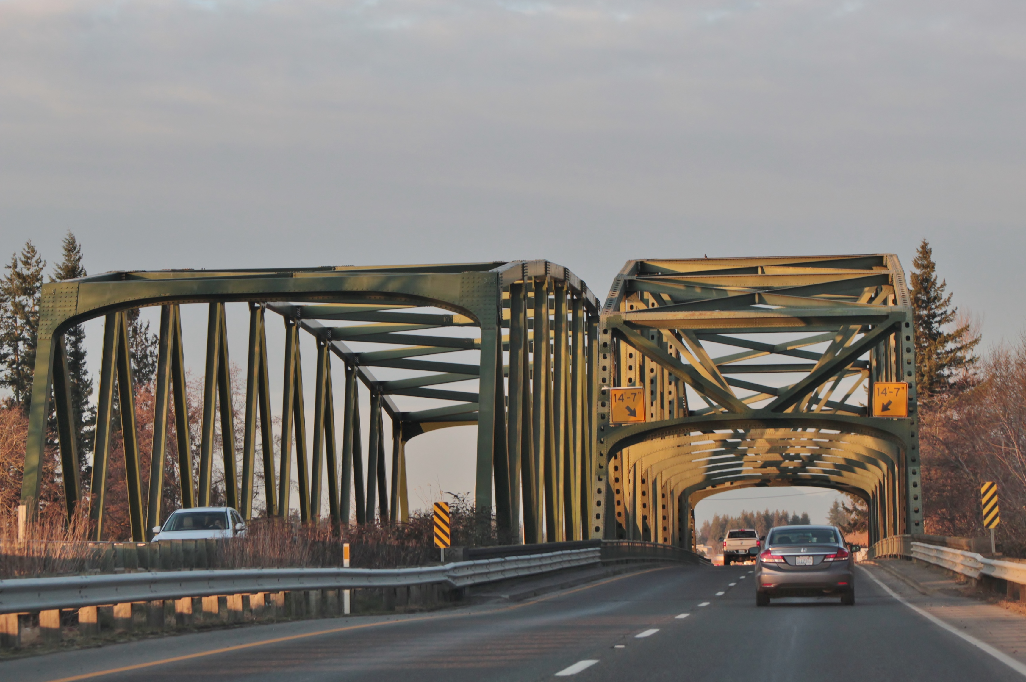 The twin bridges of State Route 539 (the Guide Meridian) over the Nooksack River, seen northbound approaching Lynden, Washington.